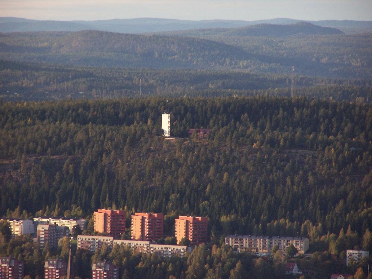 Norra Berget, Sundsvall, Sweden